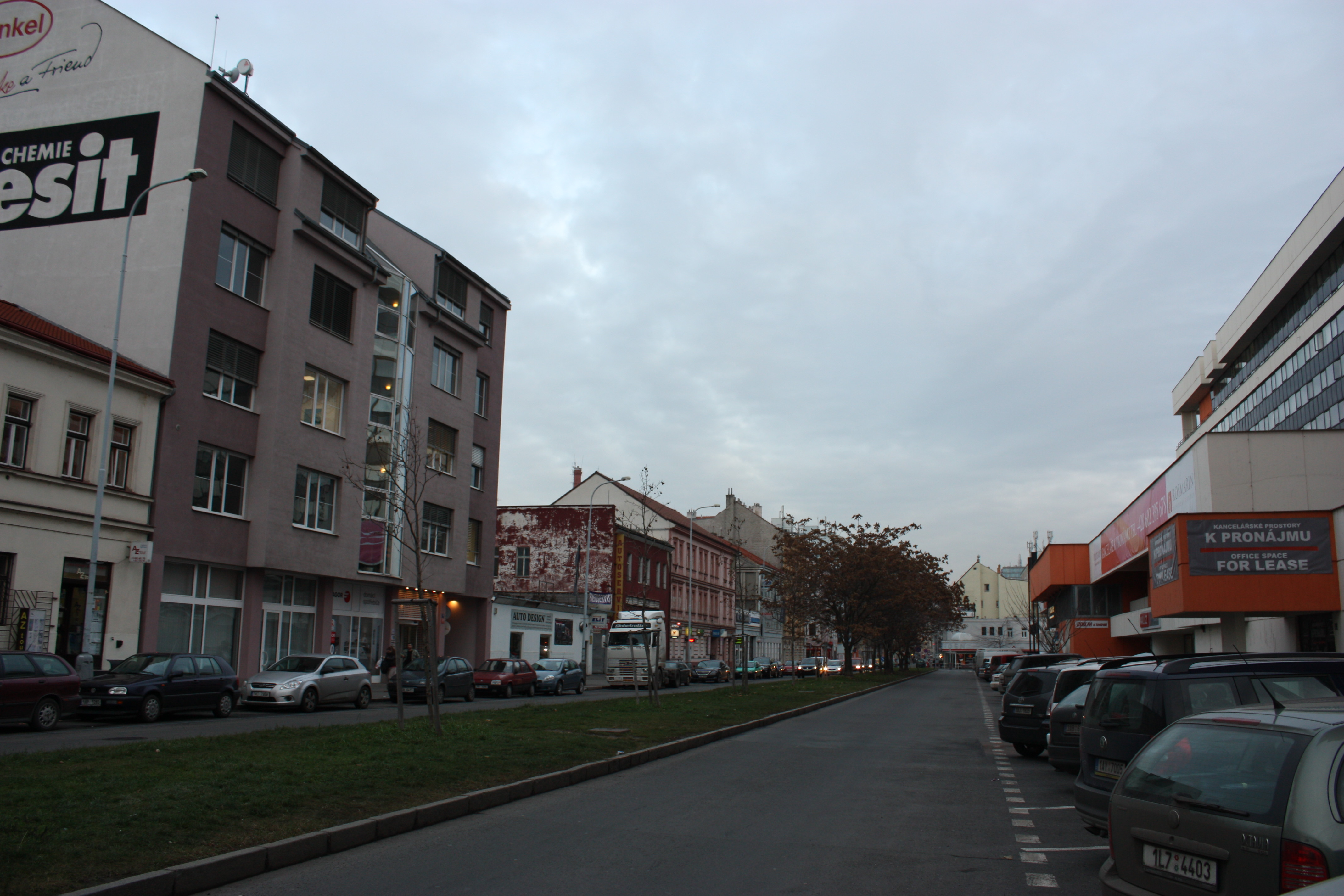 Dělnická street, Prague- Holešovice, Czechia.